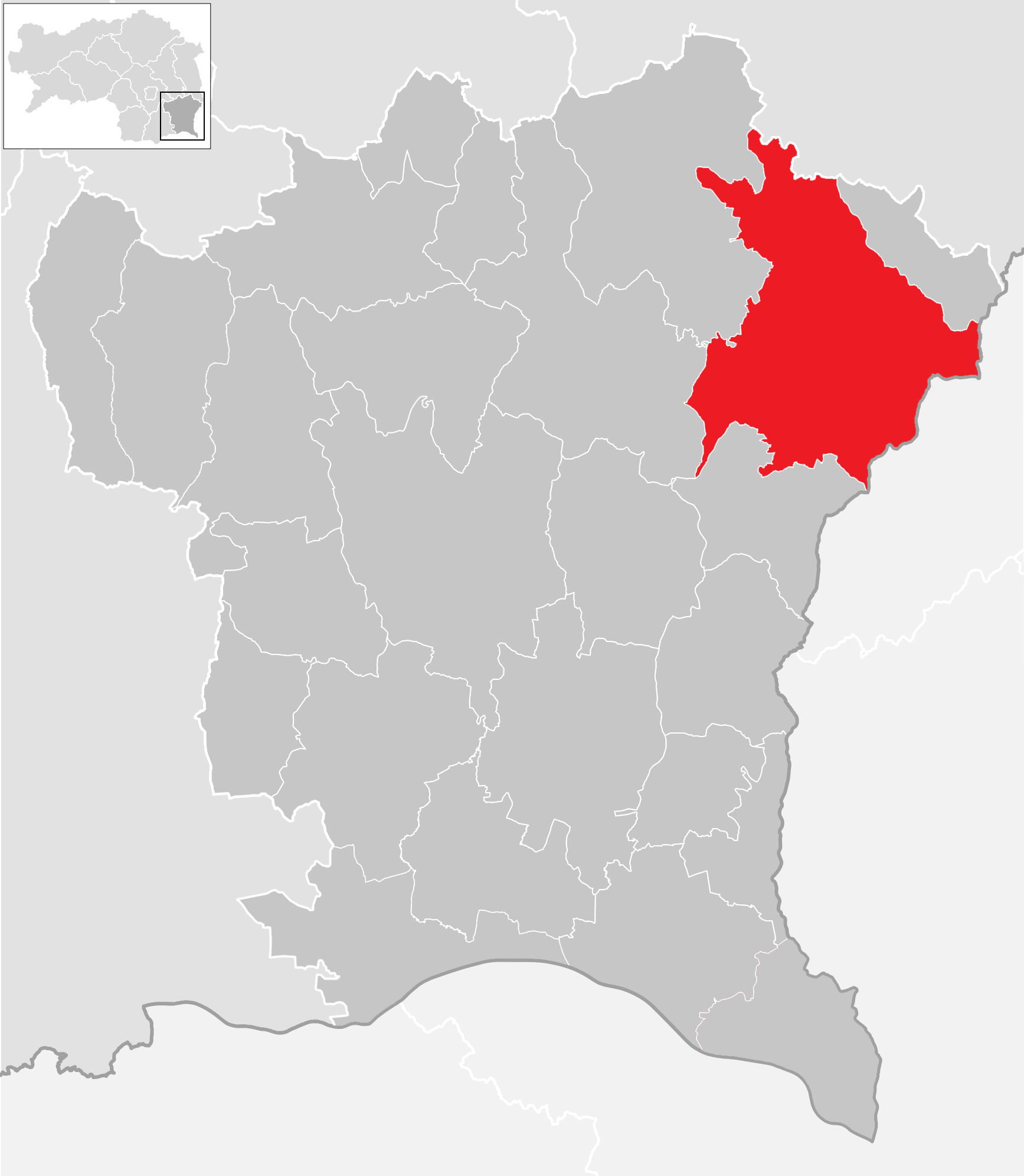 district Südoststeiermark